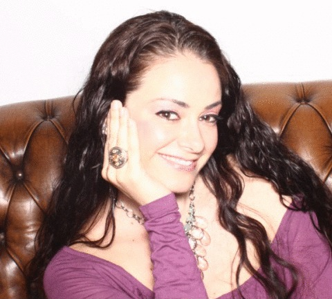 in NYC